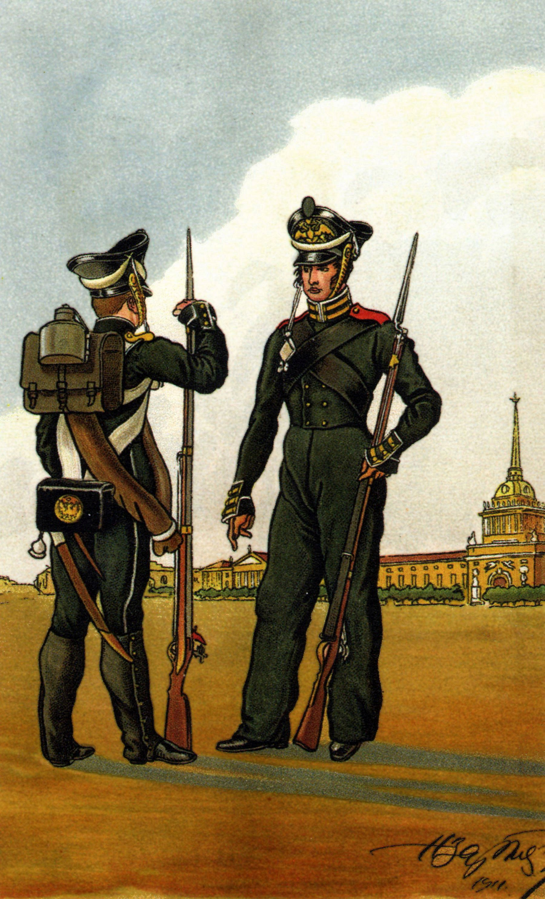 From the series The Russian Army in 1812.